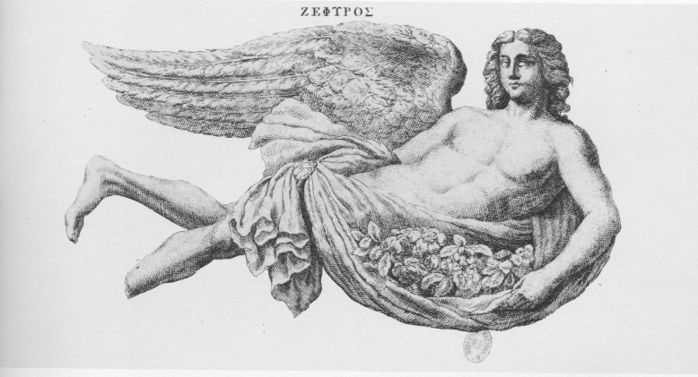 Zephyros